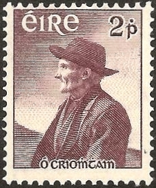 Ireland 1957 Birth Centenary of Tomas O'Crohan postage stamp.